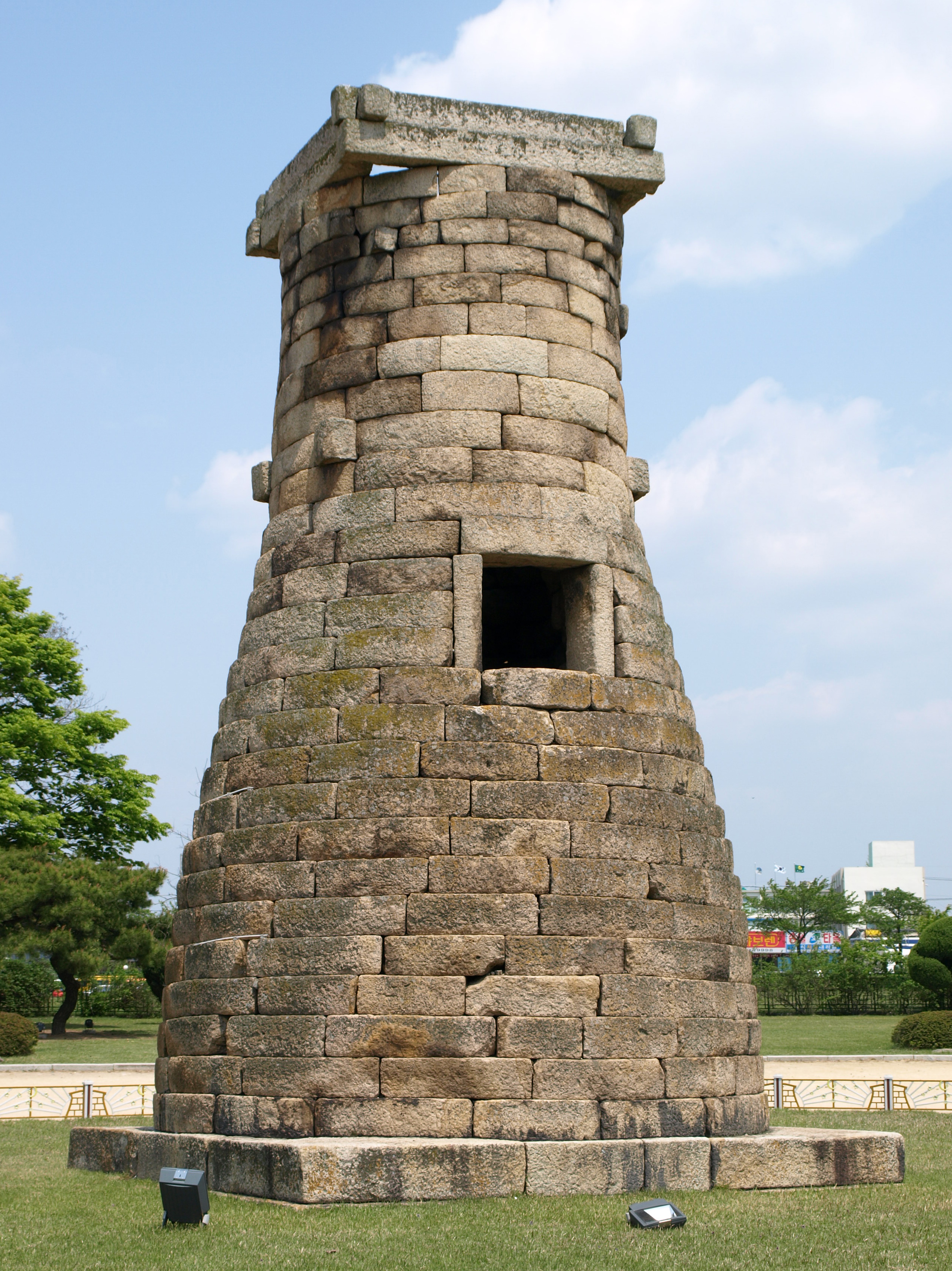 Cheomseongdae is one of the oldest surviving observatories in East Asia, and one of the oldest scientific installations on Earth. It dates to the 7th century to the time of kingdom of Silla, which had its capital in Gyeongju. Cheomseongdae was designated as the country's 31st national treasure on December 20, 1962.